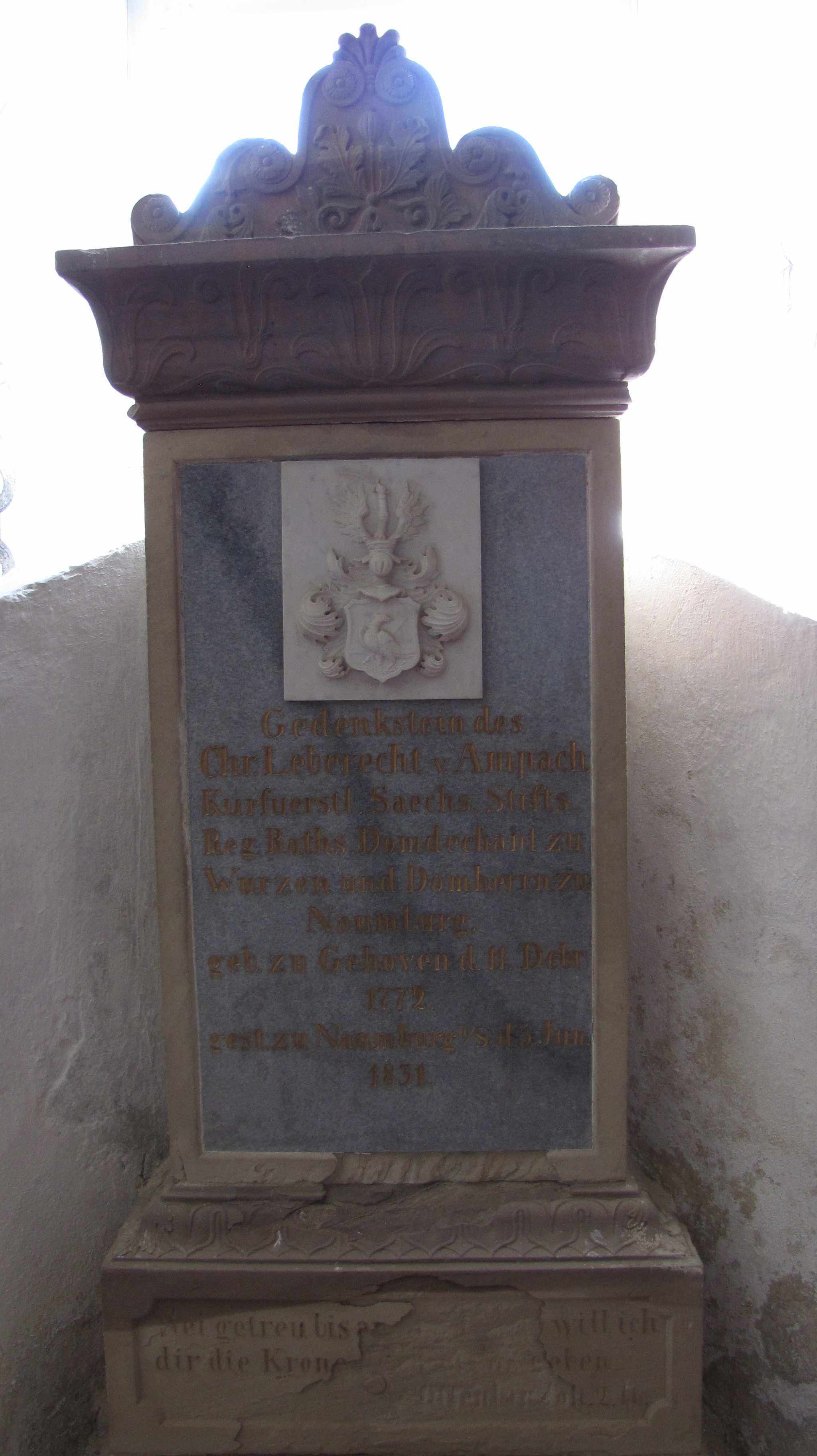 Epitaph for Immanuel Christian Leberecht von Ampach in Stechau church